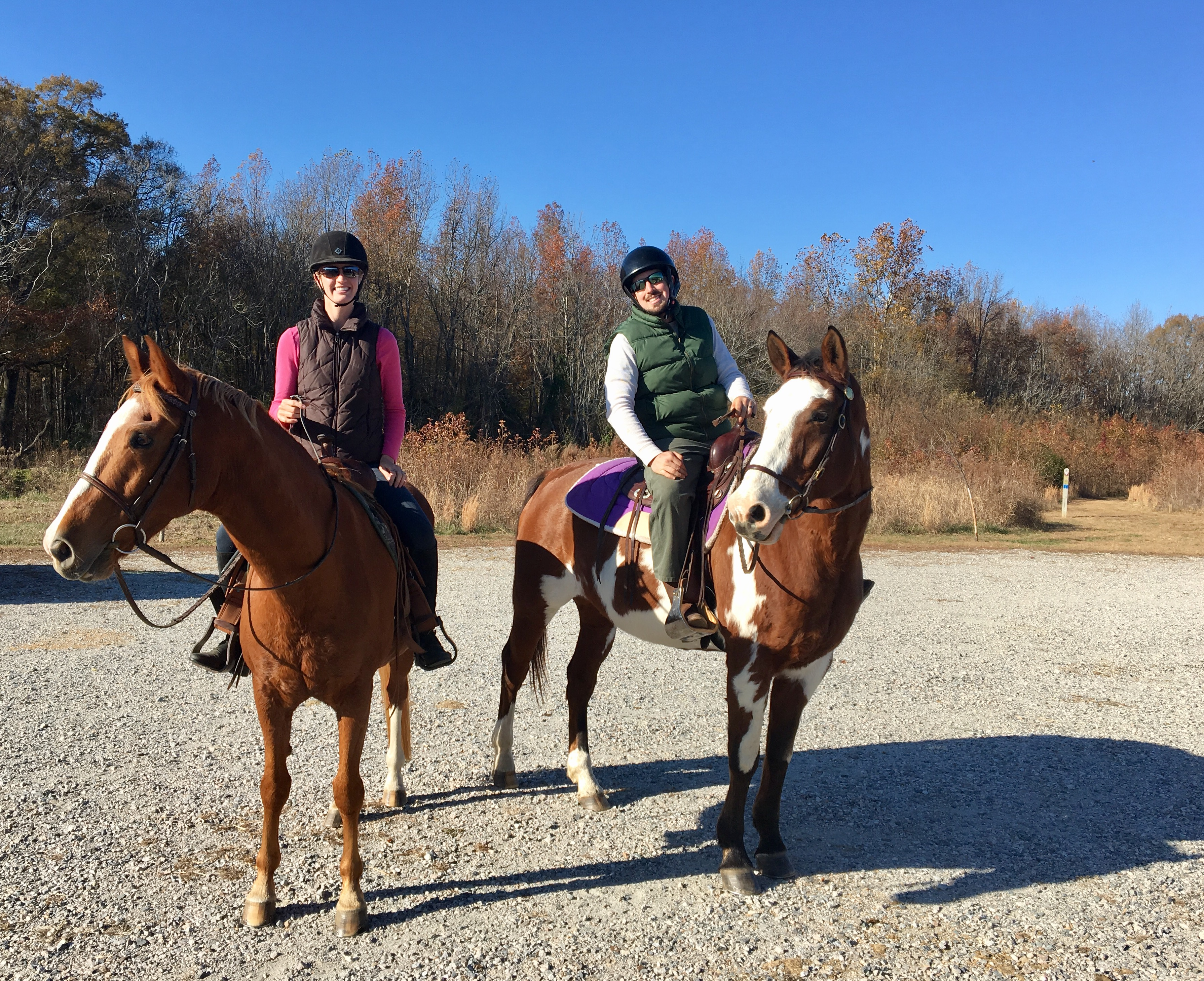 Contest Entry Powhatan State Park "Enjoying the fall colors at Powhatan State Park from the saddle"